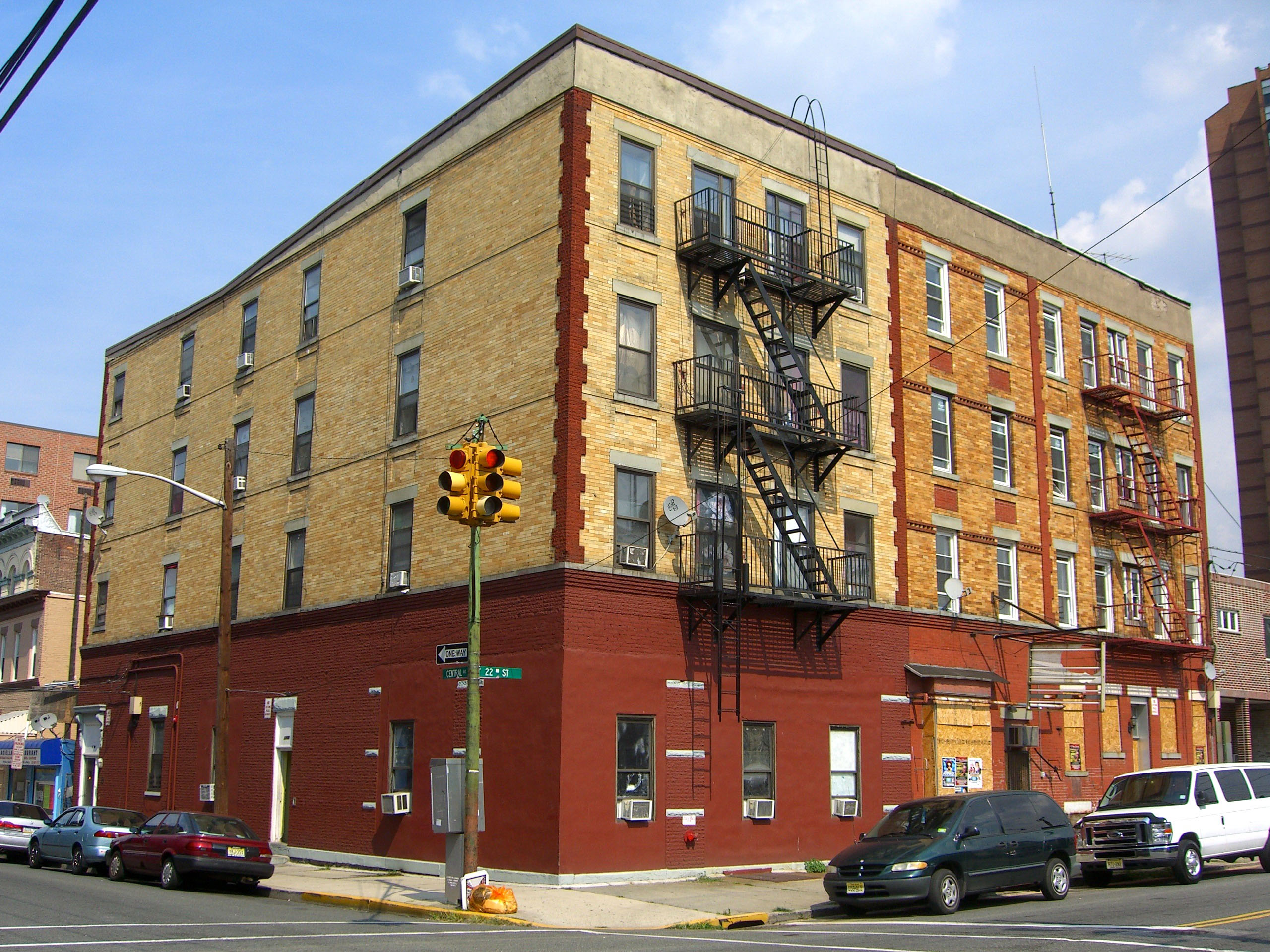 Apartment building at 2206 Central Avenue in Union City, New Jersey, as seen on August 24, 2012. It is owned by Feisal Abdul Rauf, the founding imam of Park 51 in Manhattan. This photo was created by Luigi Novi. It is not in the public domain, and use of this file outside of the licensing terms is a copyright violation.